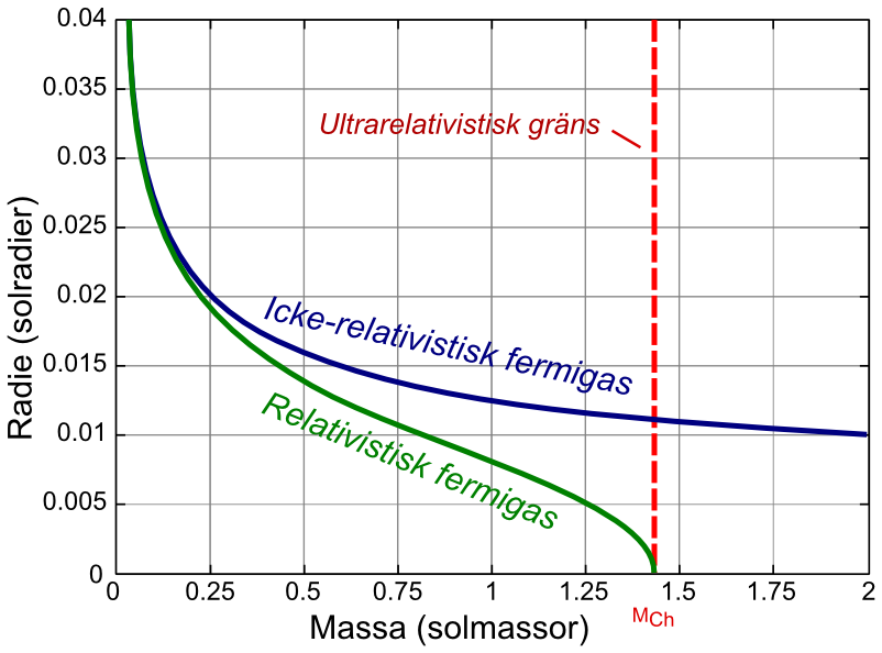 white dwarf limits